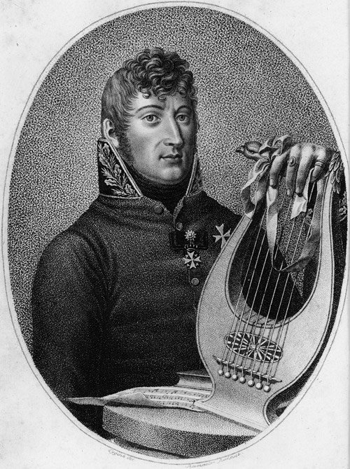 Ulrich von Schlippenbach (1774-1826)